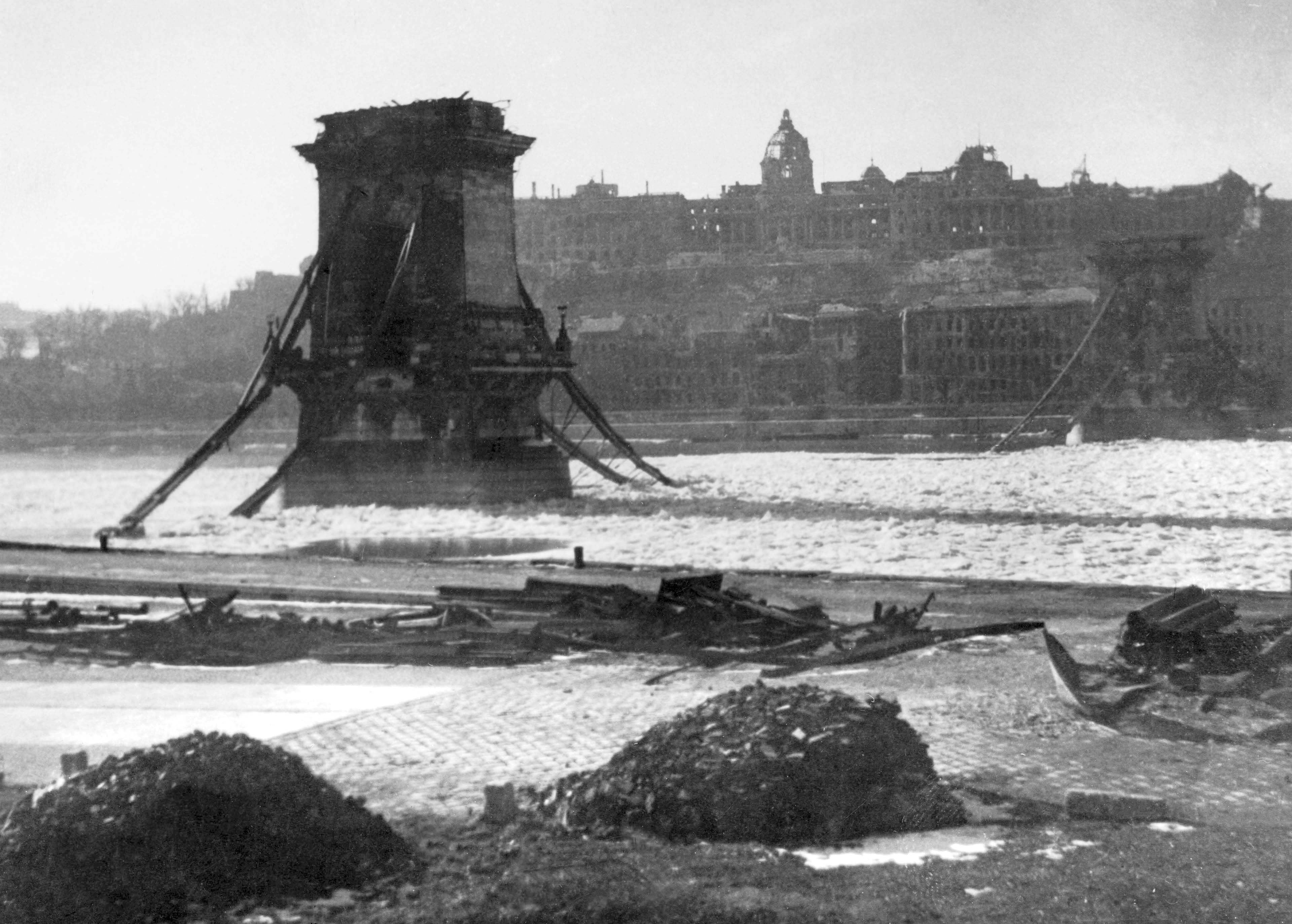 The blasted Chain Bridge in Budapest, 3. february 1946; Hungary